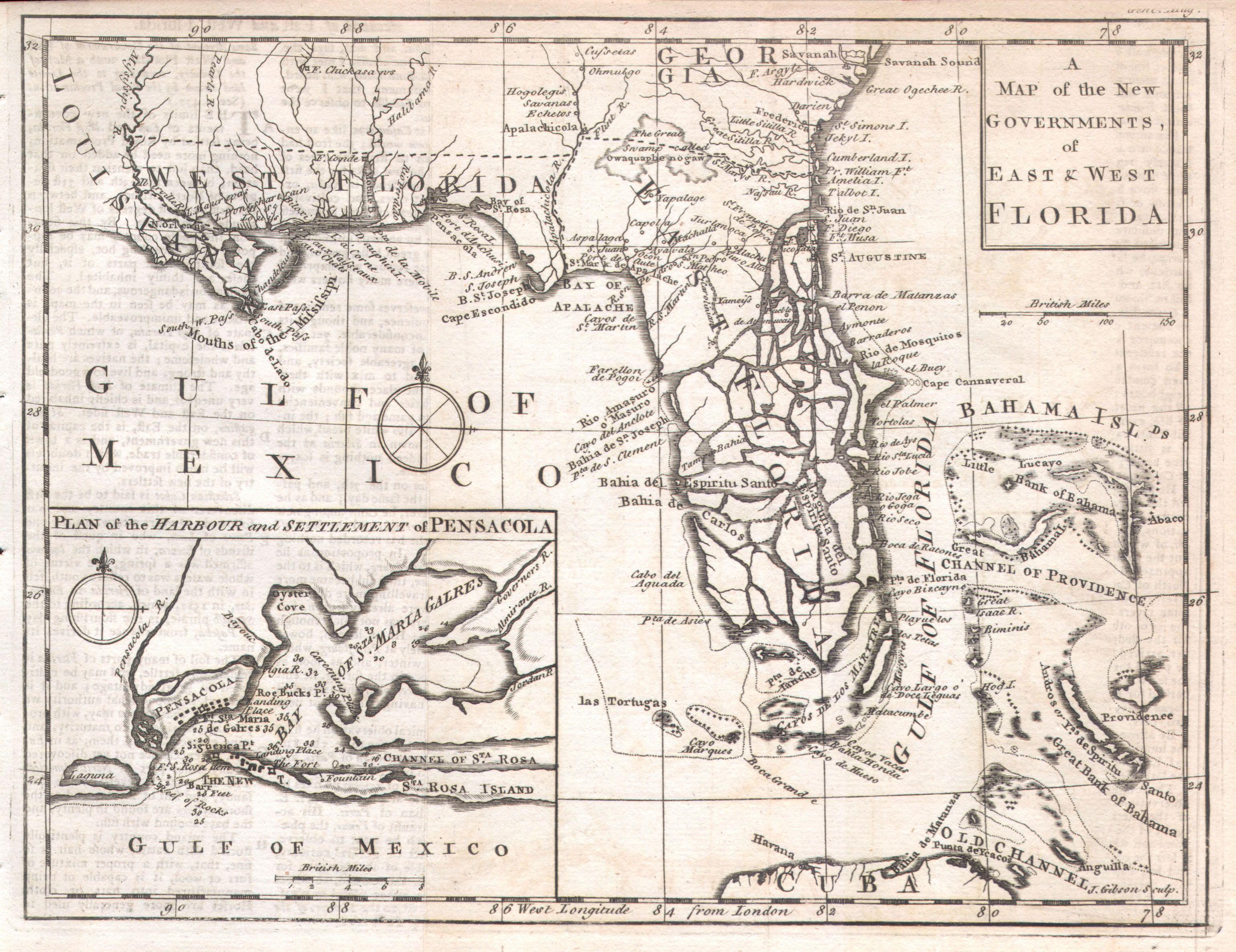 Featured here is a rare and important map of Florida issued for Gentleman’s Magazine in 1763 to describe the new territories of British Florida. The map depicts the provinces of East and West Florida as they emerged following the Treaty of Paris that ended the French and Indian War. The treaty ceded to the British control of most of the North America territory east of the Mississippi River. The treaty included an agreement with Spain to exchange Cuba for Florida. The British quickly set up two new provinces divided by the Apalachicola River. West Florida comprised the territory between the Apalachicola River and the Mississippi River. East Florida included most of the peninsula of Florida. The division was intended by the British to reduce conflicts between colonists and the Native Americans of the region by outlawing English settlement (except for the coast) west of the Apalachicola River. The map itself attempts to depict the region in considerable detail and includes political boundaries, cities, forts, canals, rivers, swamps and American Indian Tribes. Extends from New Orleans and the Mississippi River east to the Bahamas, which are shown in full, north as far as Savannah and south as far as Cuba. A large inset in the lower left quadrant depicts Pensacola bay and harbor with detailed depth soundings and individual buildings noted. In an attempt to depict the Everglades, the largely unexplored peninsula of Florida is shown as a series of islands and interconnecting waterways . This map was issued in the November 1763 issue of Gentleman’s Magazine. This issue of the magazine is included with this item and contains an extensive textual description of Florida, anecdotes, and commentary on the indigenous inhabitants.